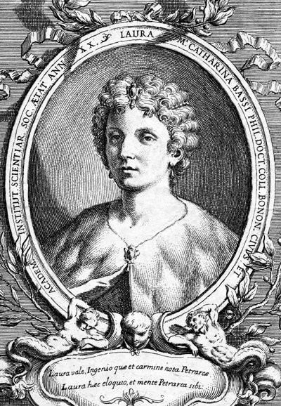 Italian physicist Laura Bassi